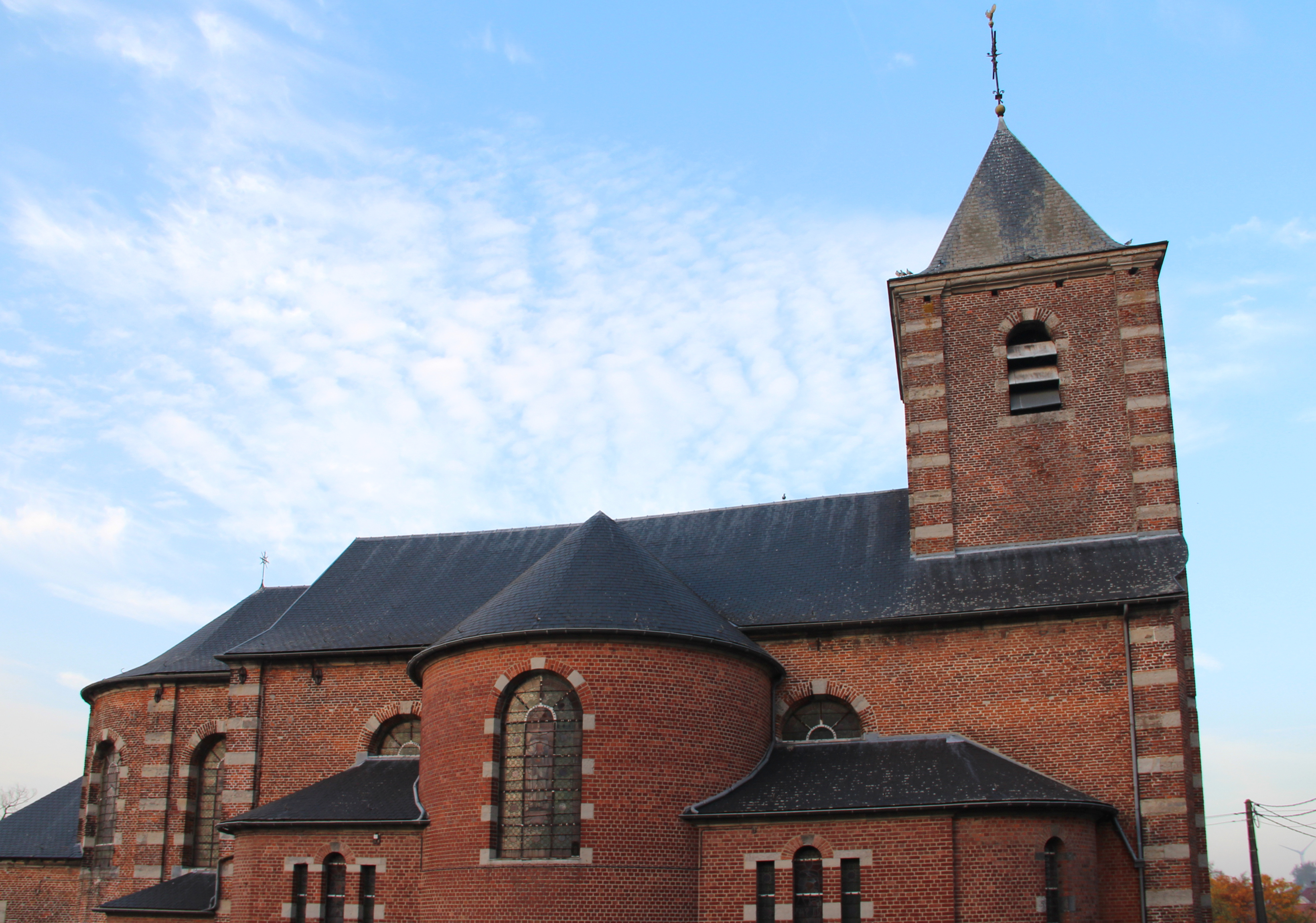 The church of Saint Brice, Wez-Velvain, Belgium.